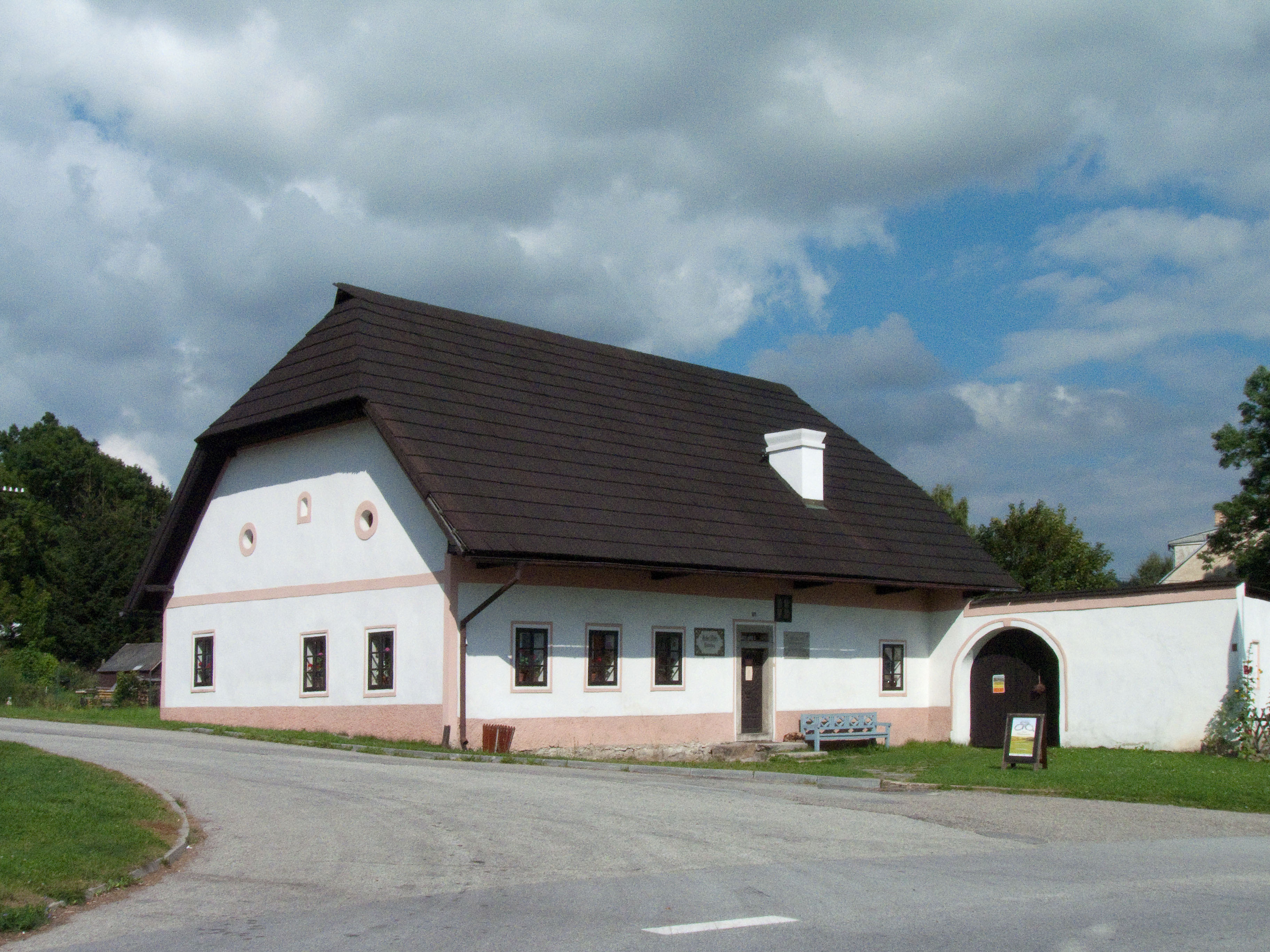 Adalbert Stifter Memorial in his native house in Horní Planá, Český Krumlov district, Czech Republic